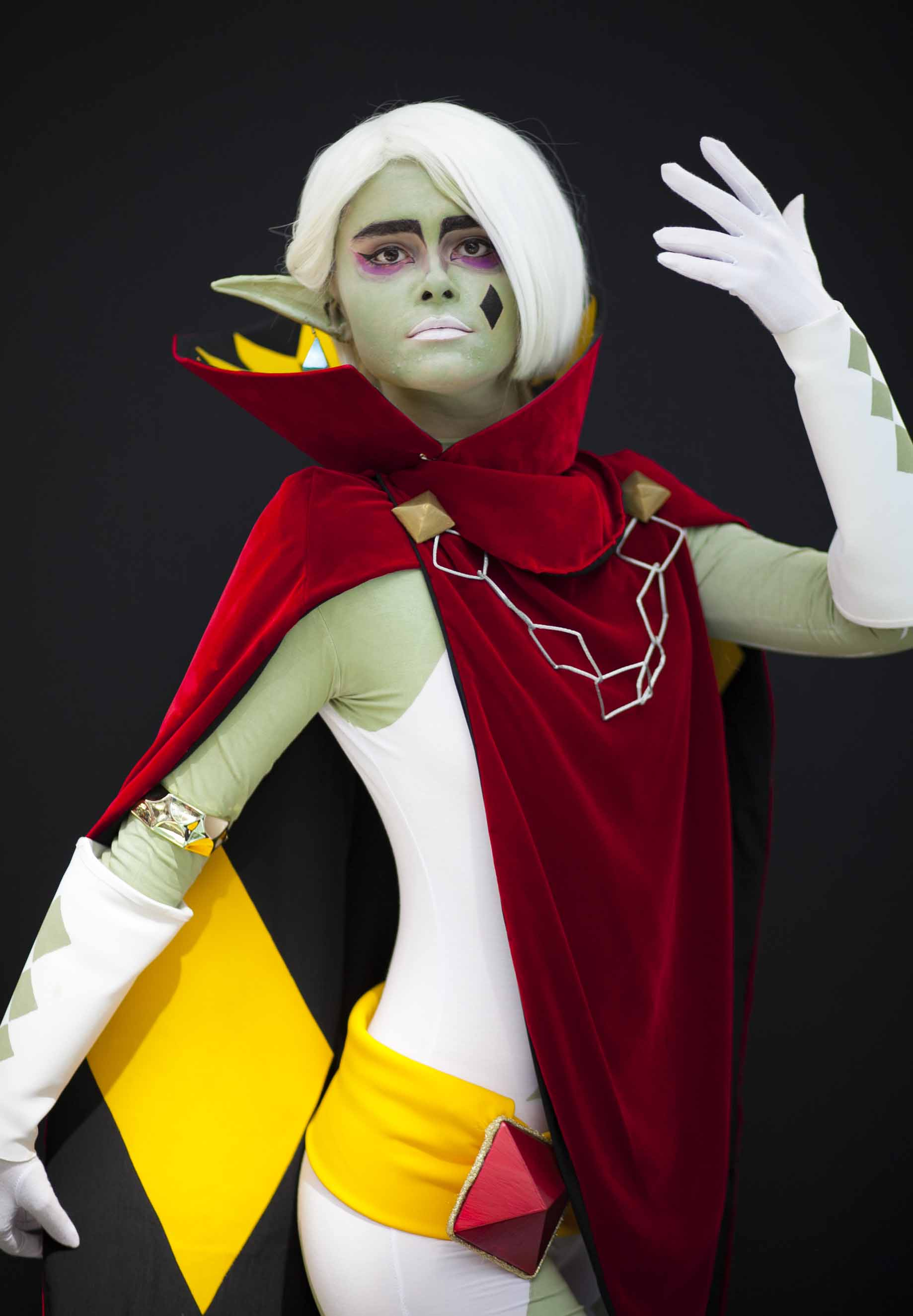 Anime Expo 2017: Ghirahim// Legend of Zelda Skyward Sword Photographer: Jason R. Eras Cosplayer: Christina Tinde as Ghirahim